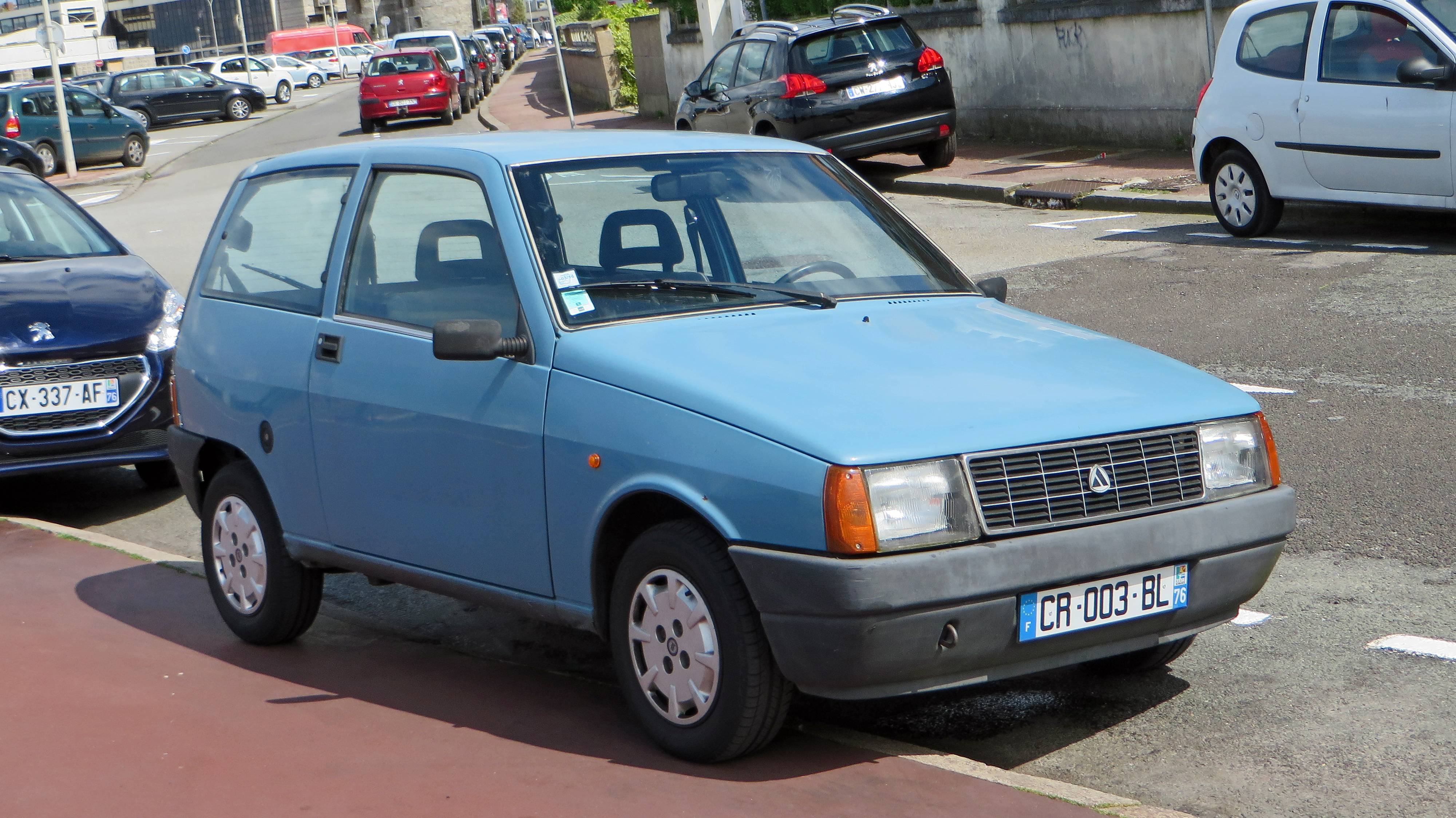 1985-1986 Autobianchi Y10 touring - sold by "Réseau Chardonnet" official importer of Autobianchi cars in France in the 70s and 80s. It is powered by a Brazilian-built motor of 1049 cc, which was also used in the Fiat Uno. This has a maximum power of 56 bhp at 5850 r/min, and is developed from Fiats Lampredi-designed four-cylinder that originally equipped the Fiat 127. The Touring is externally identical to the Y10 Fire, aside from the trunk badging, while on the carrier can be seen the Alcantara in place of the fabric coverings. The Touring is quite lively, with a maximum speed of 155 km/h and acceleration from 0 to 100 km/h in 14.5 seconds.